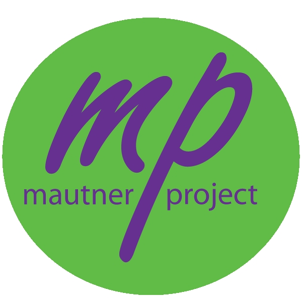 This is the official logo of Mautner Project, the National Lesbian Healthcare Organization based in Washington, D.C.